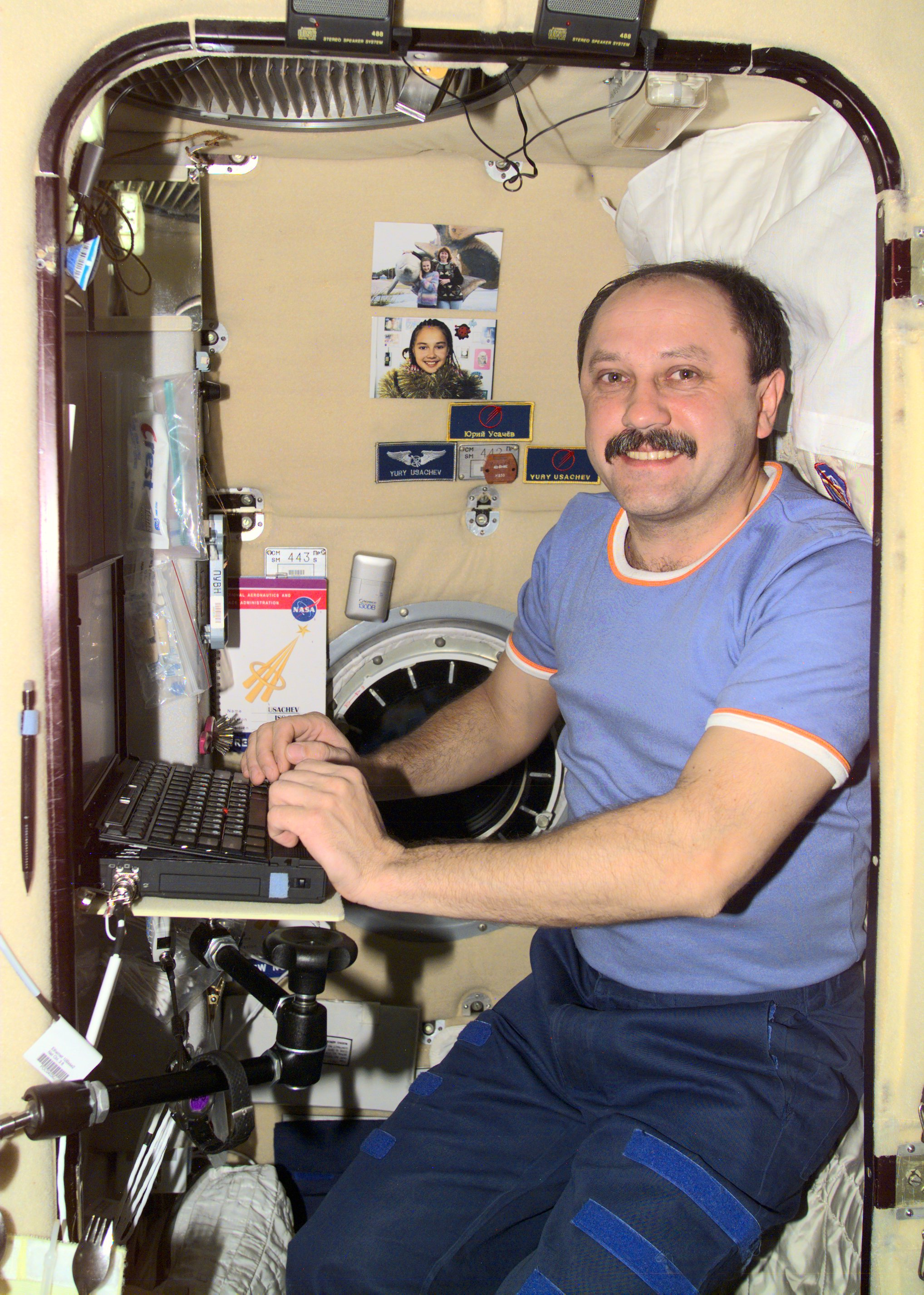 View of the Expedition Two commander Cosmonaut Yury Usachev typing on a laptop computer while in his sleep station located in the Zvezda Service module of the International Space Station ISS Alpha. Family photos are visible along the inside wall. Image ID: iss002e5730